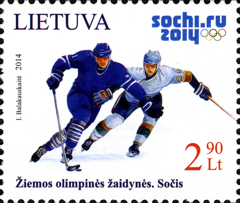 Stamps of Lithuania, 2014